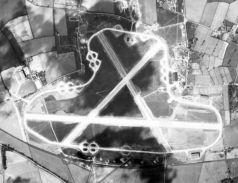 Aerial photograph of Oulton airfield 20 April 1944. Photograph taken by 7th Photographic Reconnaissance Group, sortie number US/7PH/GP/LOC298. English Heritage (USAAF Photography).